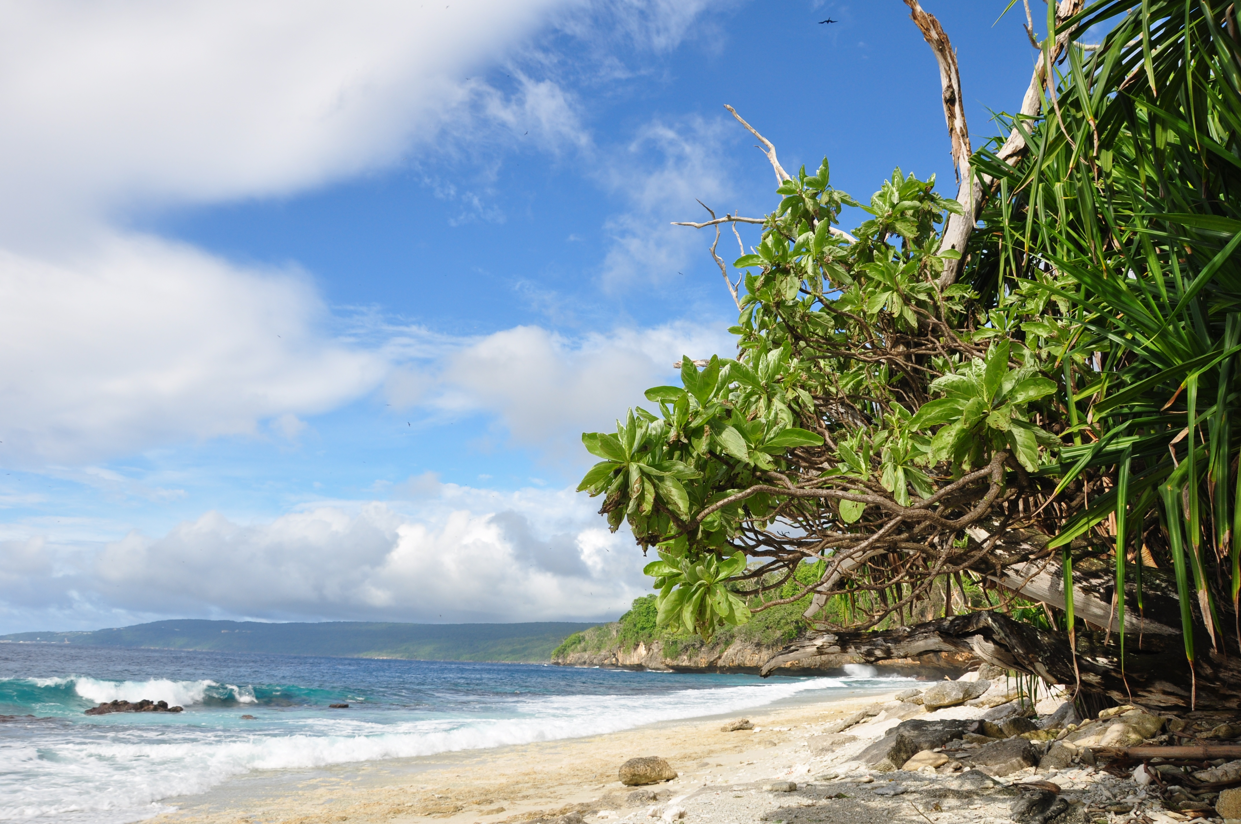 Christmas Island Immigration Detention Centre